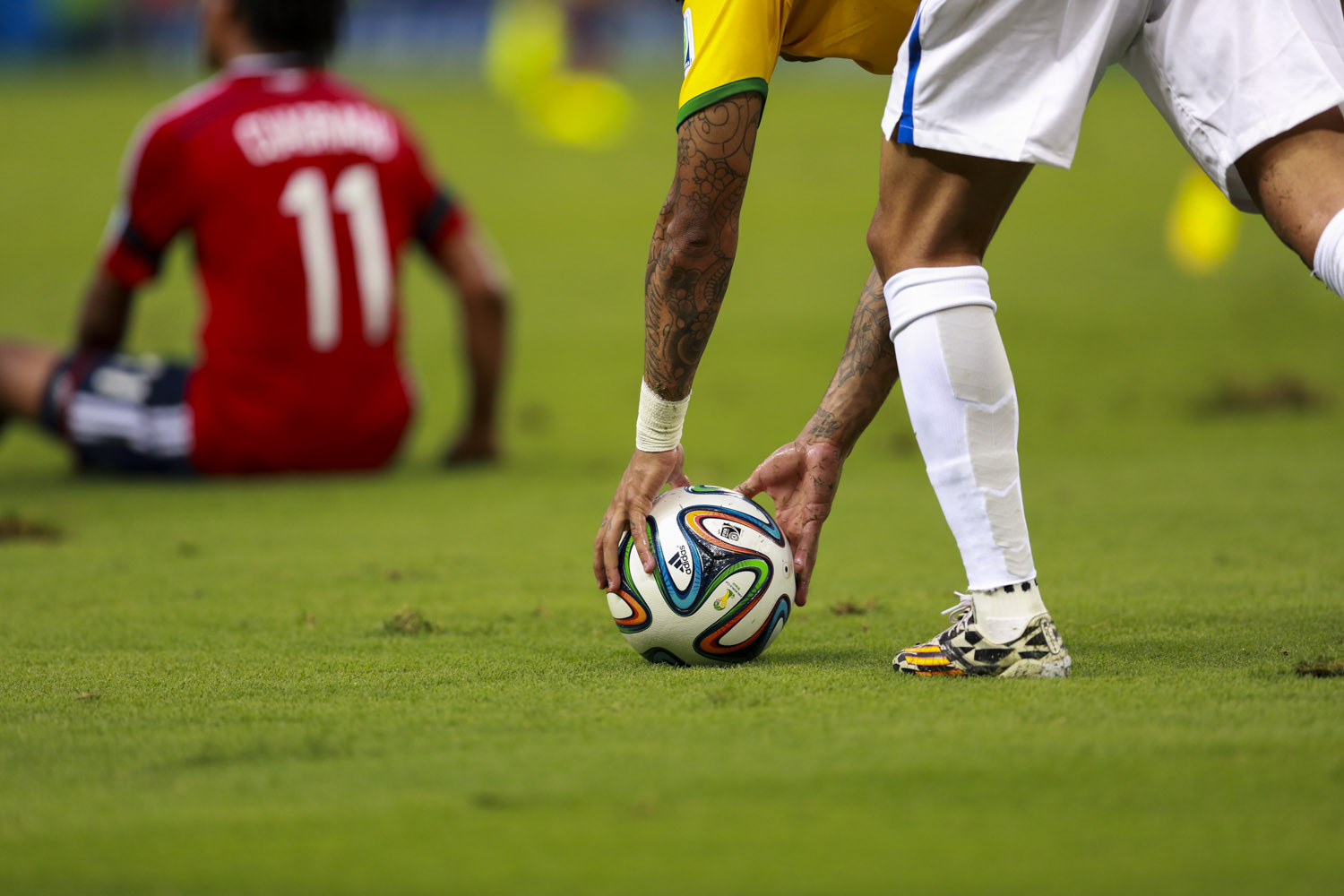 Brazil and Colombia match at the FIFA World Cup 2014-07-04